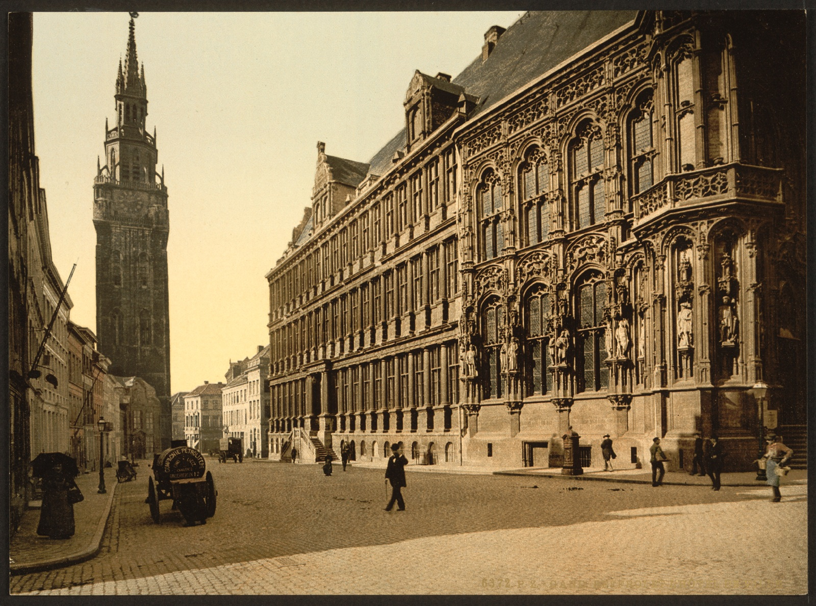 Belfry and city hall, Ghent, Belgium